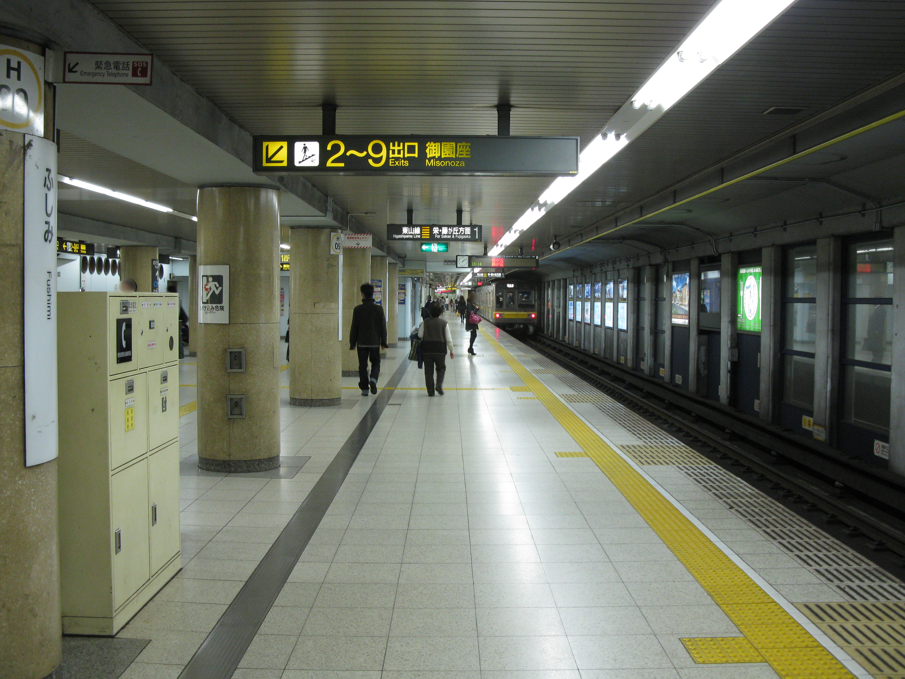 Fushimi Station no.1 platform (Nagoya Municipal Subway Higashiyama Line)